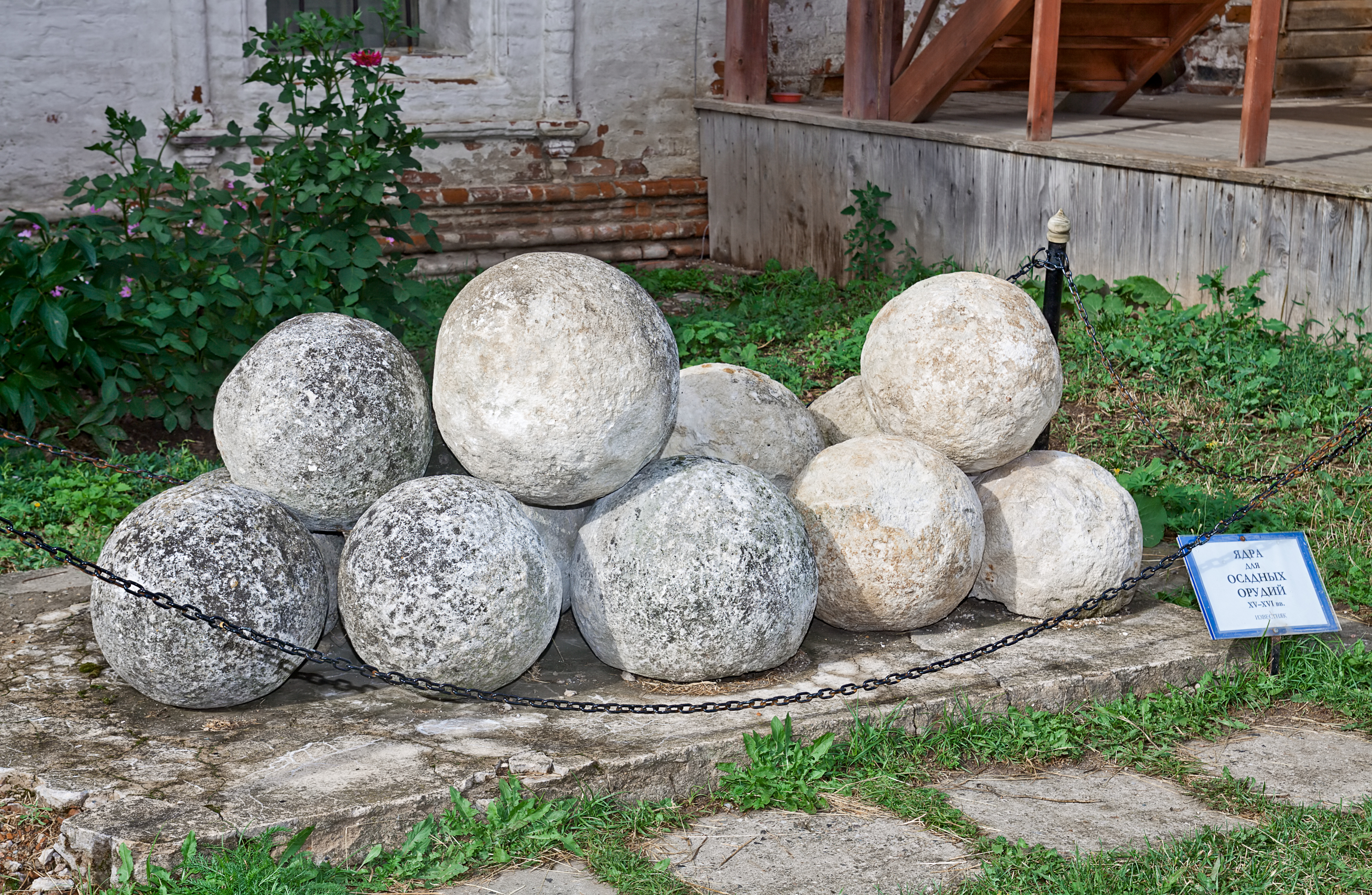 Limestone throwing balls from XV—XVI centuries for siege weapons. Pereslav museum-preserve, Pereslavl-Zalessky